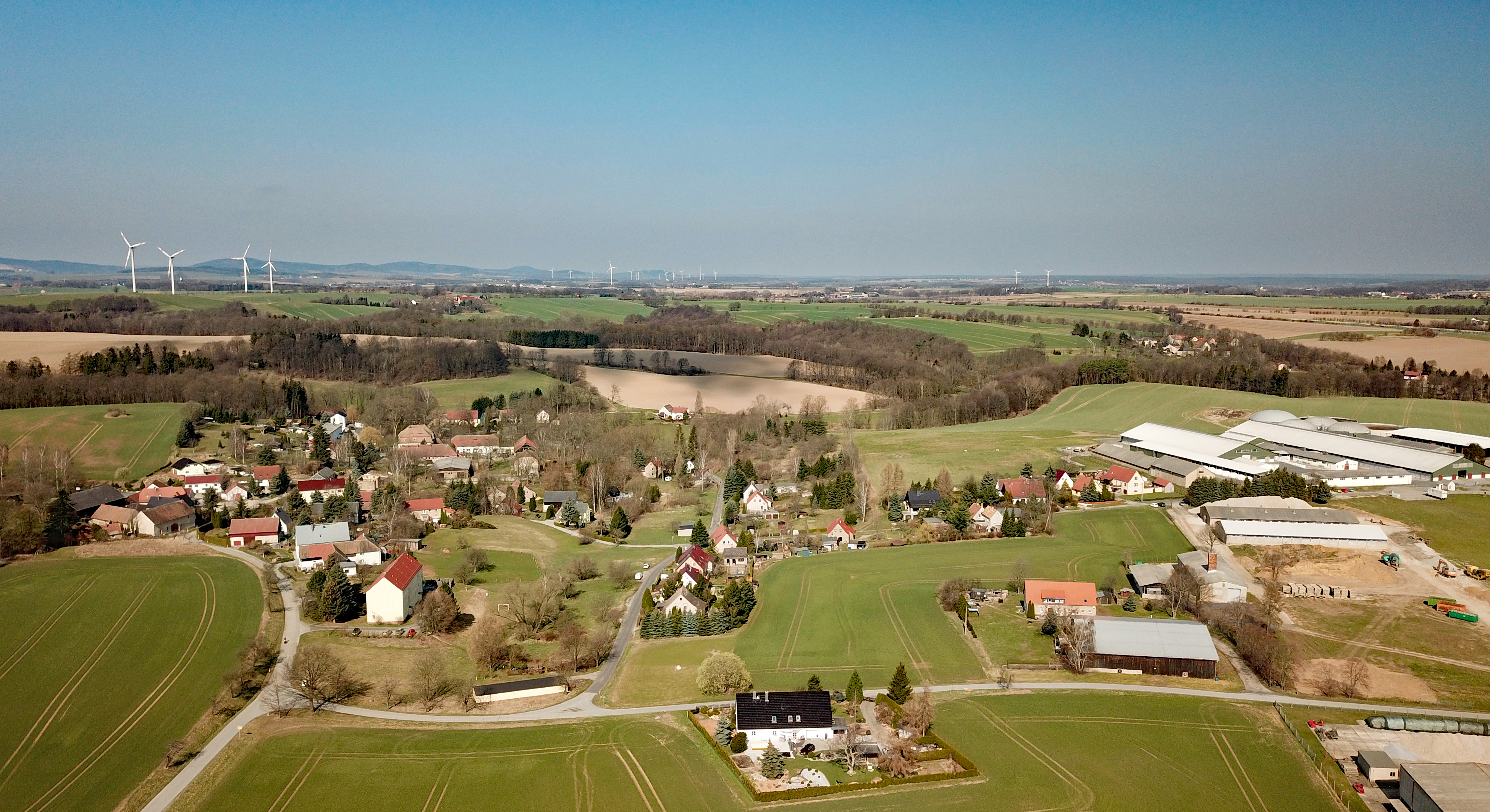 Nedaschütz (Göda, Saxony, Germany) Hornjoserbsce: Powětrowy wobraz Njezdašec